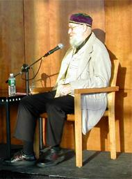 American composer Terry Riley Interview at Lincoln Center, 2004